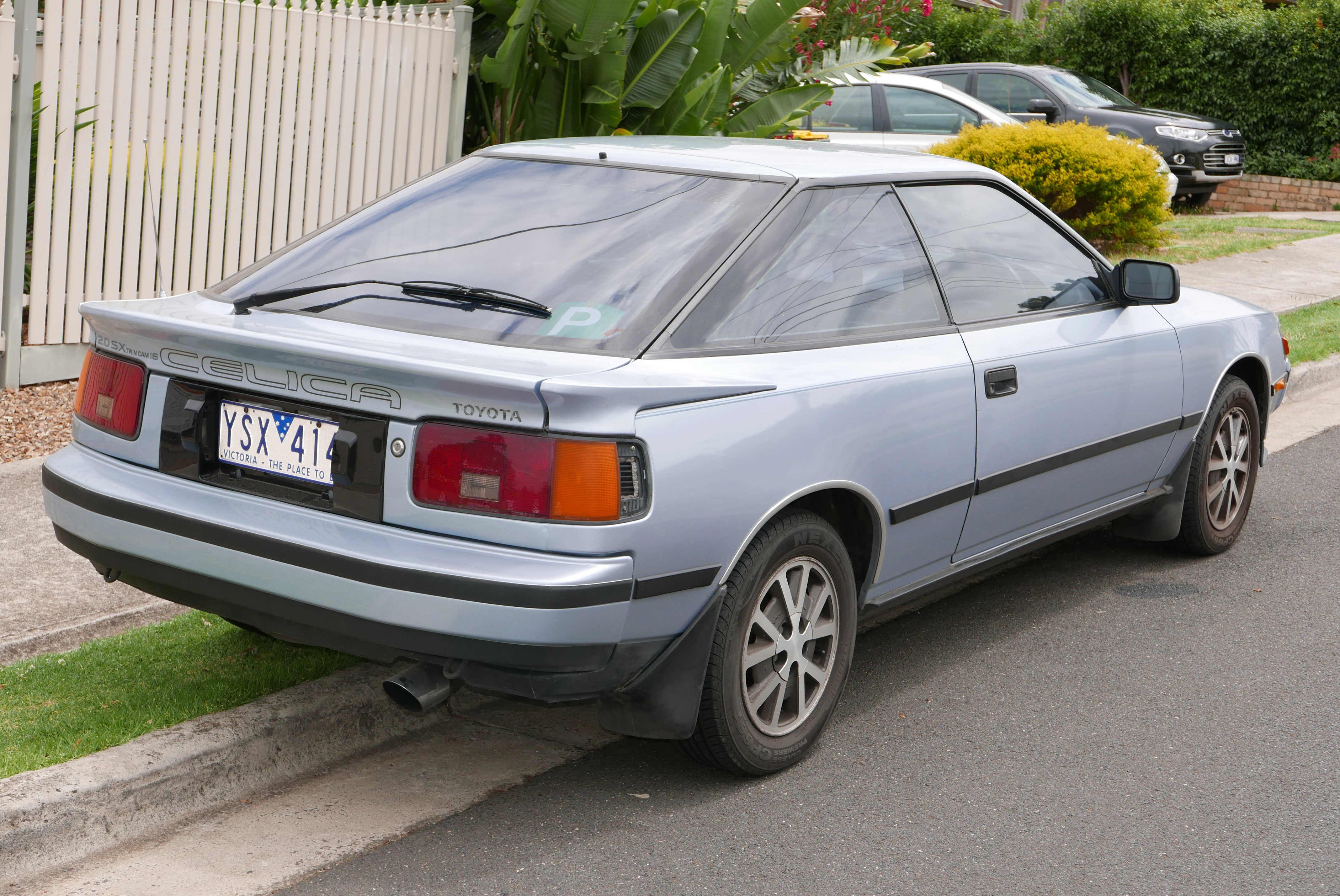 1986 Toyota Celica (ST162) SX liftback. Photographed in Pascoe Vale, Victoria, Australia. Vehicle registration enquiry results Jurisdiction Victoria Registration YSX414 Chassis code ST1627026651 Engine code 3S0035050 Compliance date 1986-03 Year of manufacture 1986